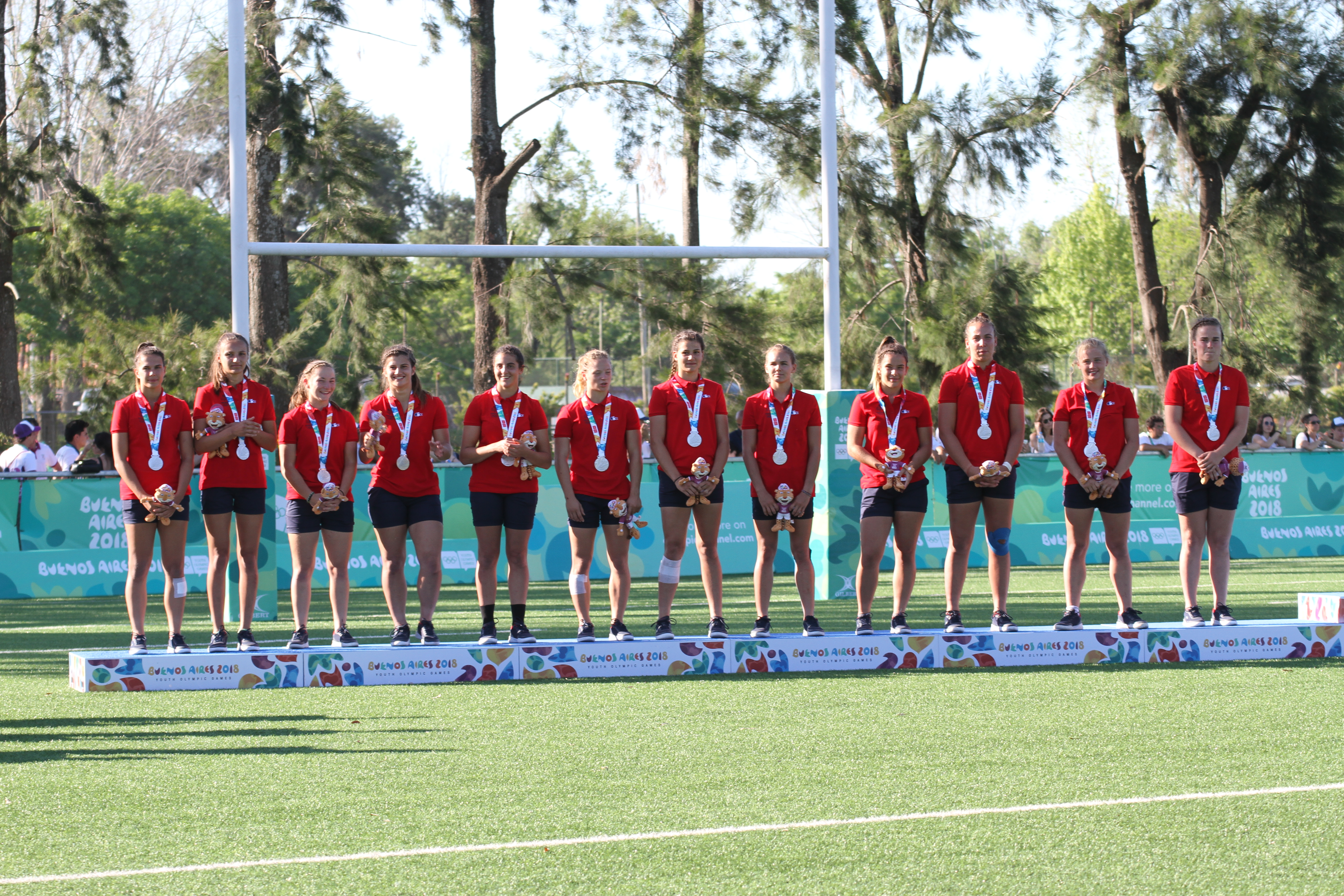 Victory ceremony of the girls rugby seven tournament of the 2018 Summer Youth Olympics.